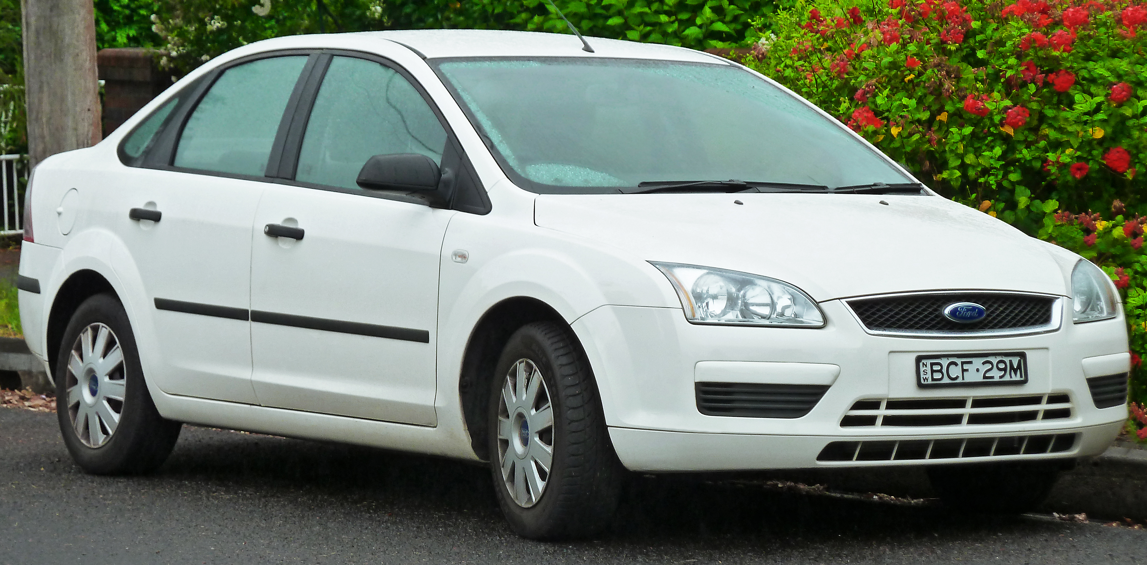 2005–2007 Ford Focus (LS) CL sedan. Photographed in Roseville, New South Wales, Australia.